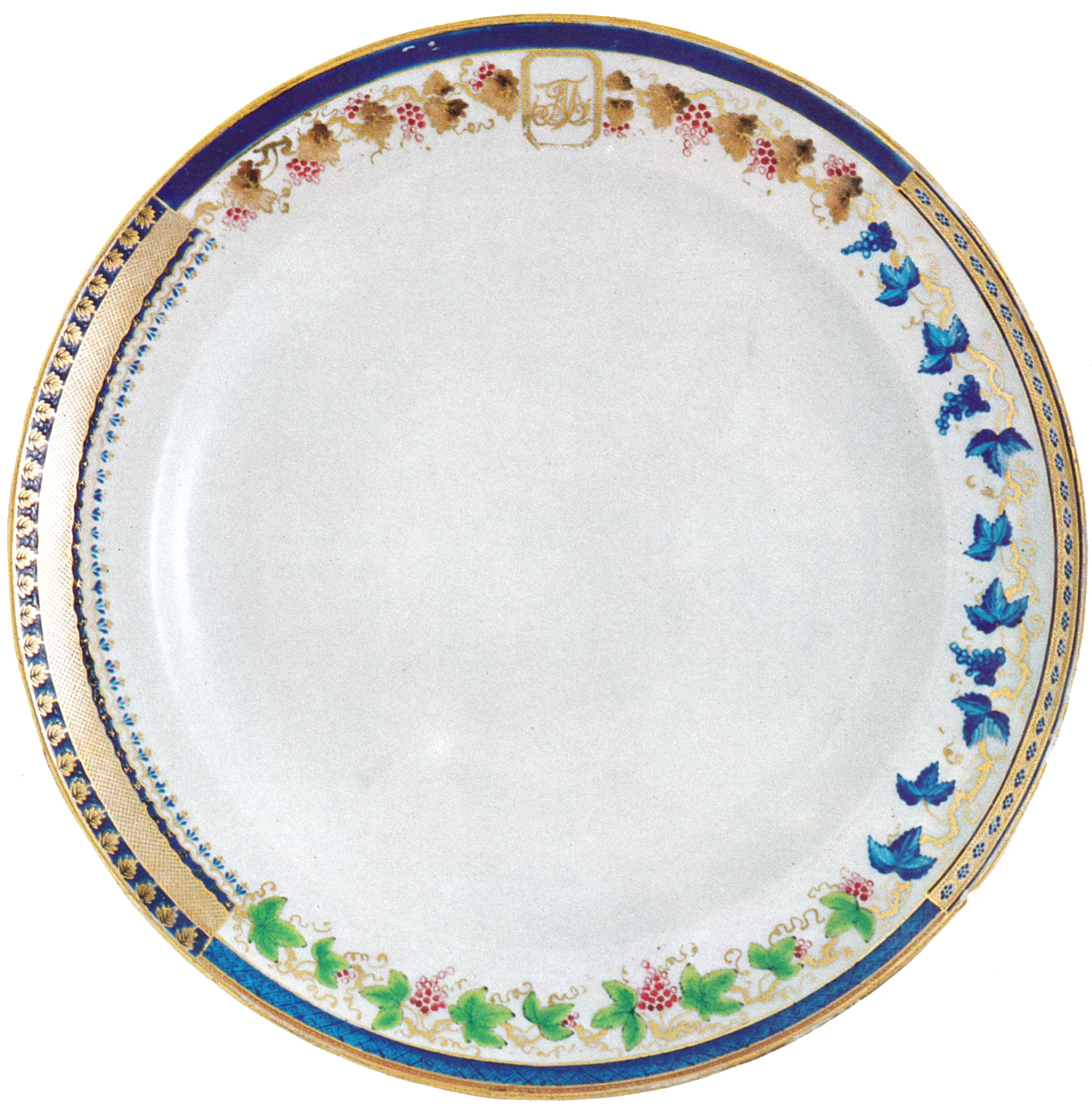 A plate of Chinese porcelain with four sample patterns for customers in the European market through the Swedish East India Company c. 1800. The plate is in the collection of the Gothenburg museum, Sweden.